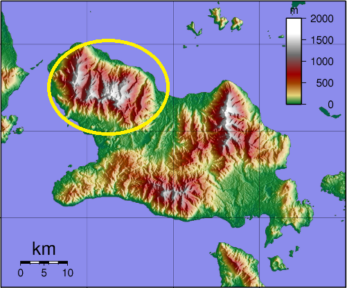 Distribution of Dactylopsila tatei on Fergusson Island